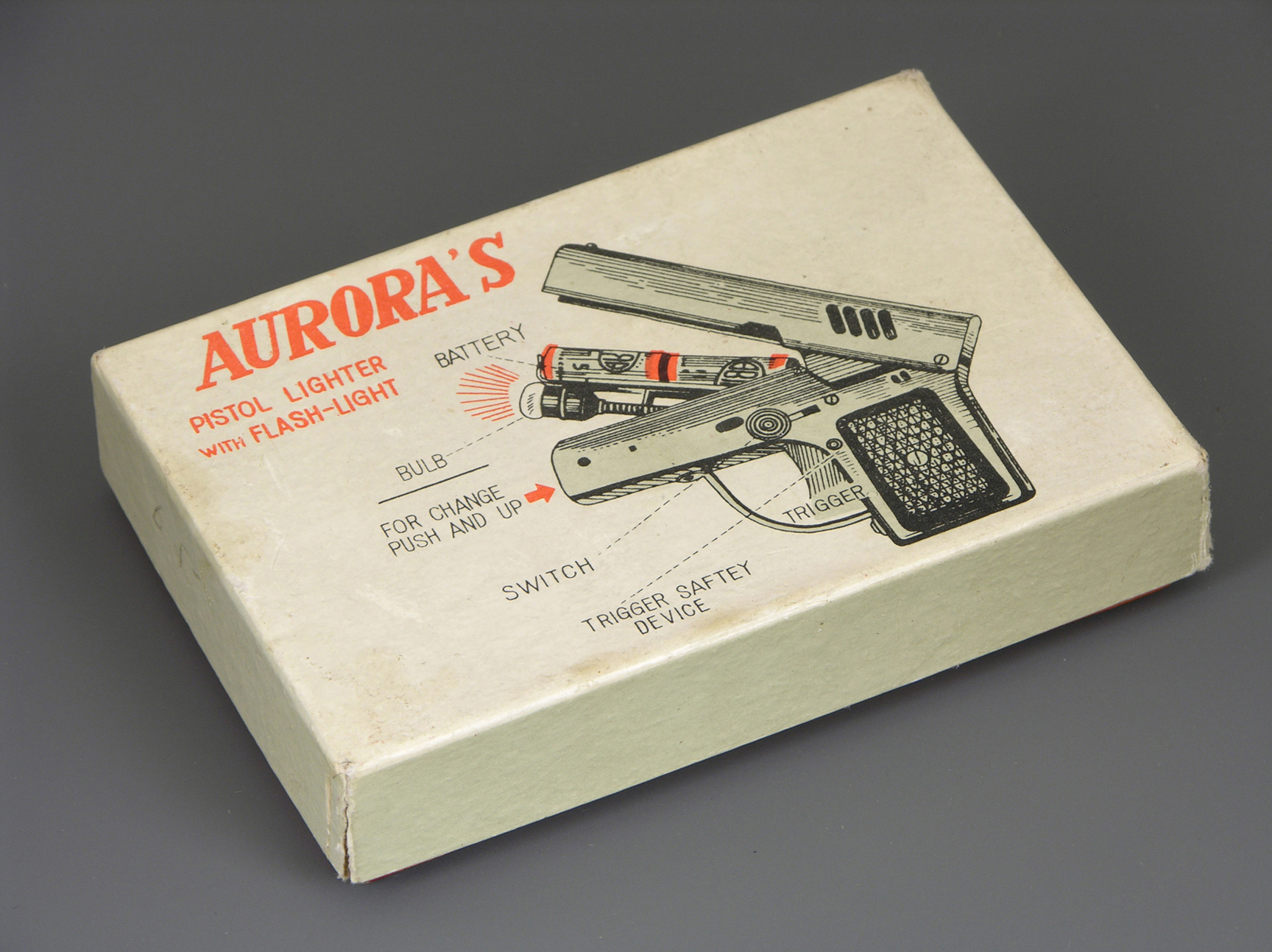 Aurora's pistol lighter Carton box with top Mid 20th century